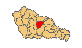 Location of municipality inside Međimurje County